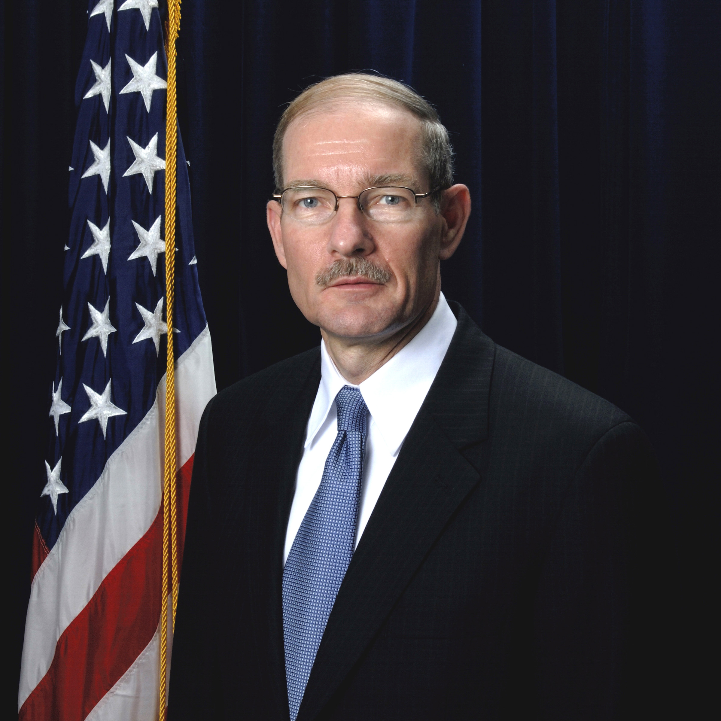 Washington, DC -- Vice Admiral Harvey Johnson, Deputy Director / Chief Operating Officer FEMA. Bill Koplitz/FEMA